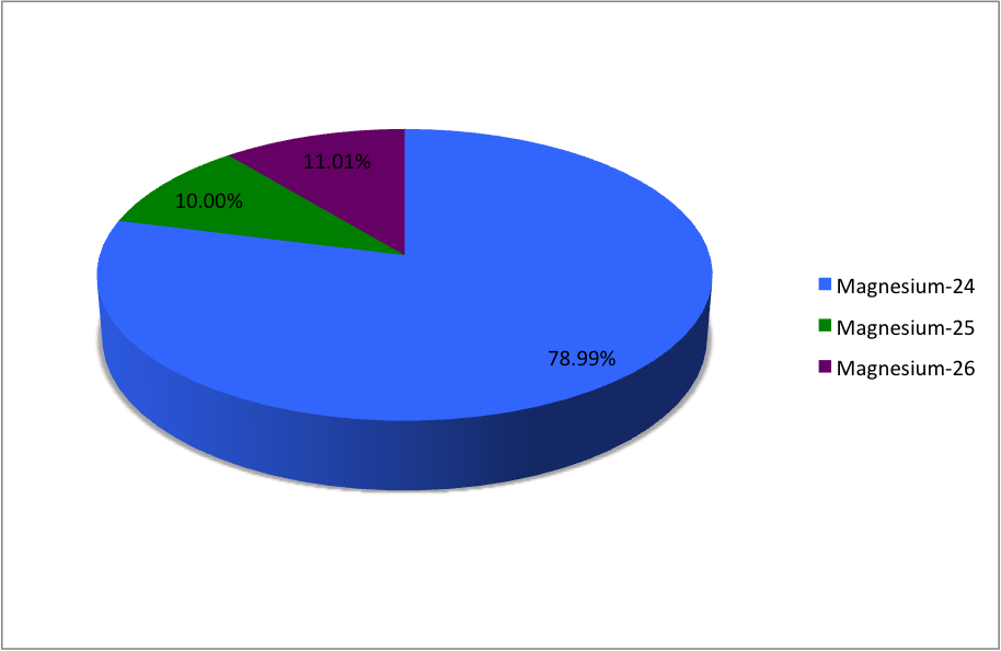 A chart showing the abundances of the naturally-occuring isotopes of Magnesium.